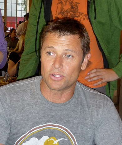 Grant Show on the set of Accidentally on Purpose.